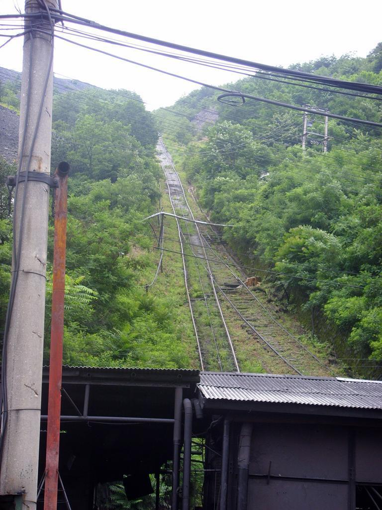 Dogye Mining Station Incline (Dogye-eup, Samcheok-si, Gangwon-do)